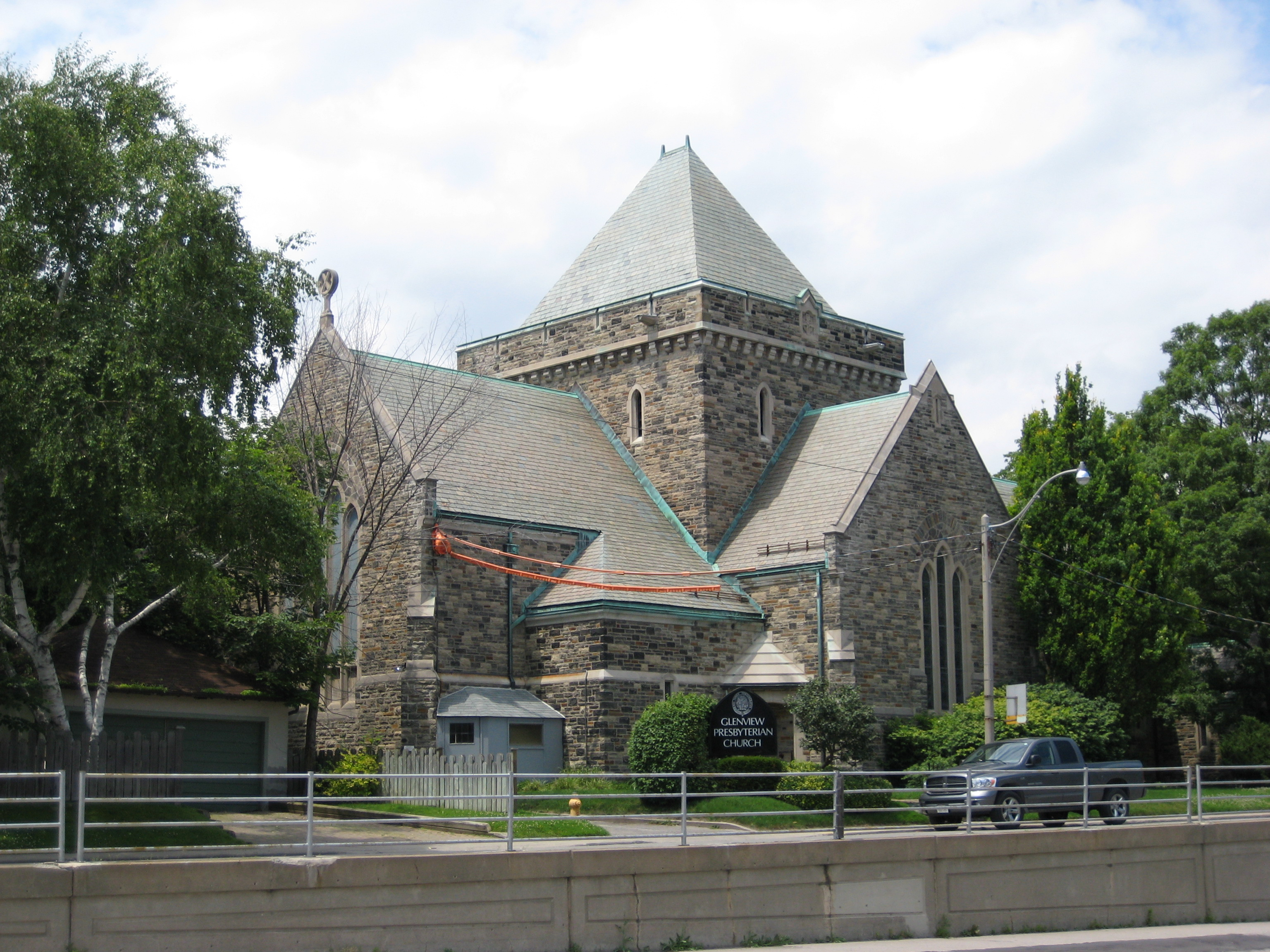 Glenview, Toronto